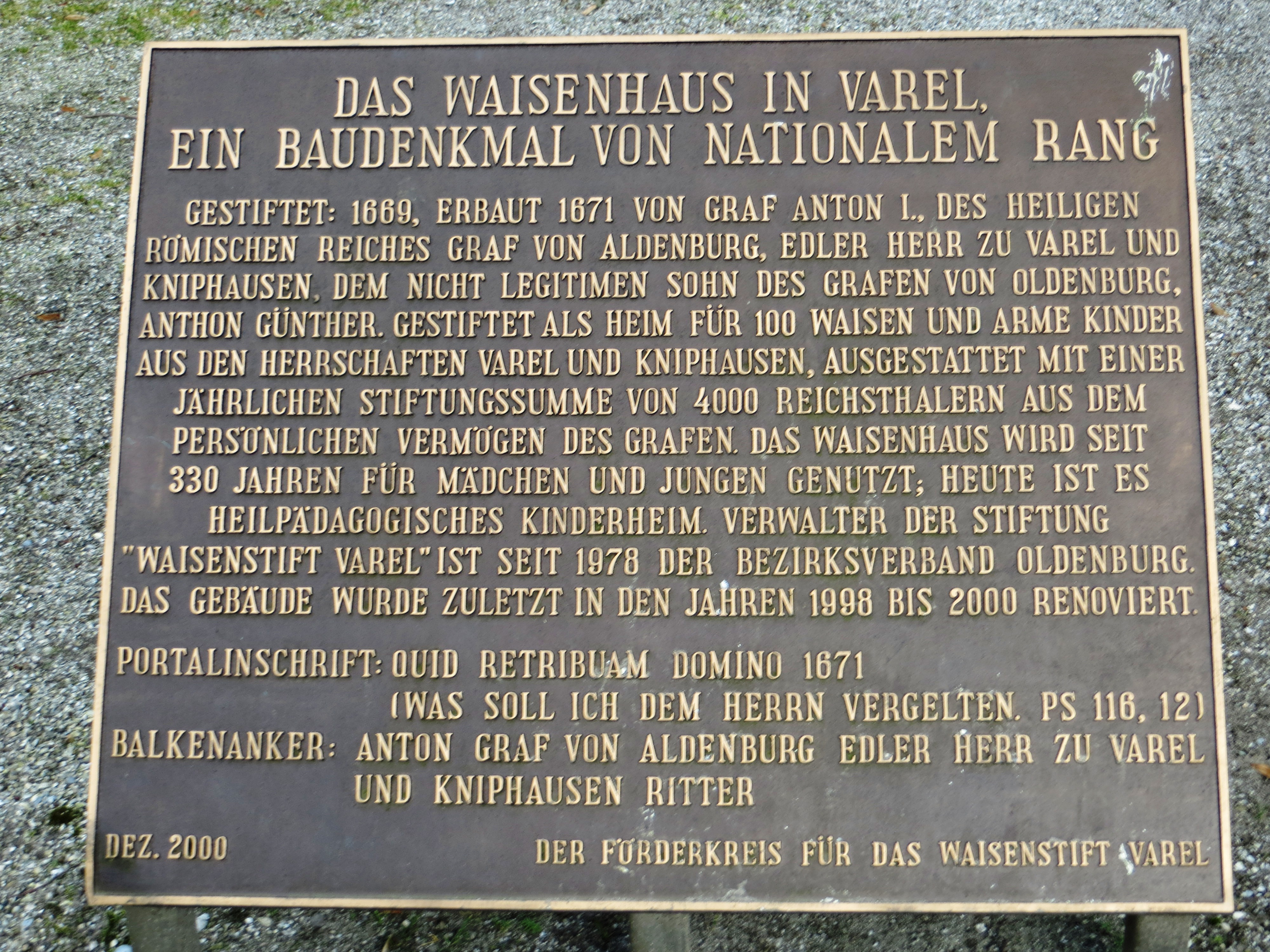 Orphanage in Varel